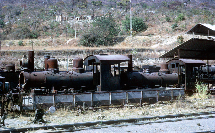 Ex SAR Class NG9 4-6-0 locomotives, Caminhos de Ferro de Moçâmedes numbers 111 and 11(3), at the Sa da Bandeira Workshops, Angola